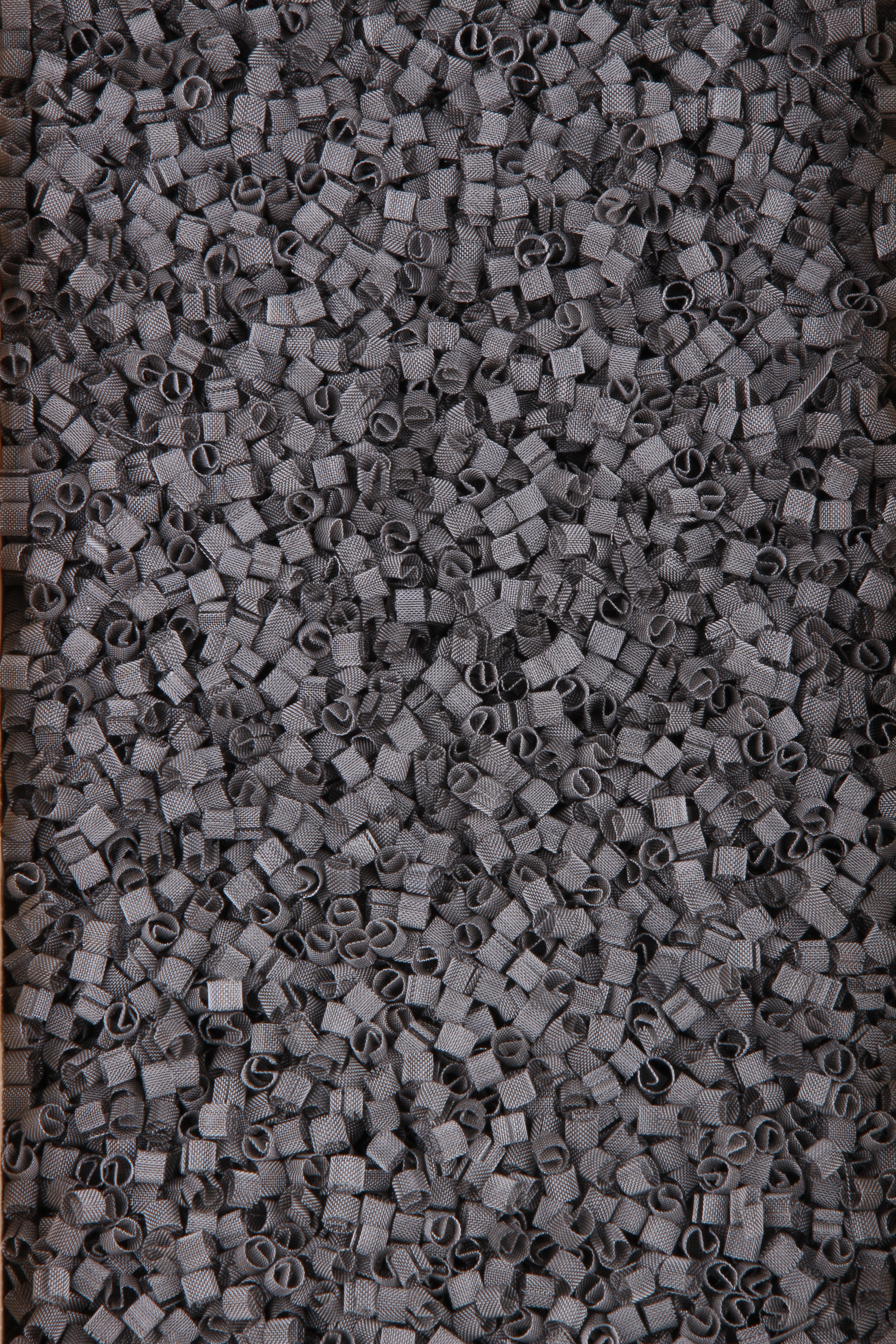 This image shows many Dixon rings together, it shows the final product of what a Dixon ring looks like